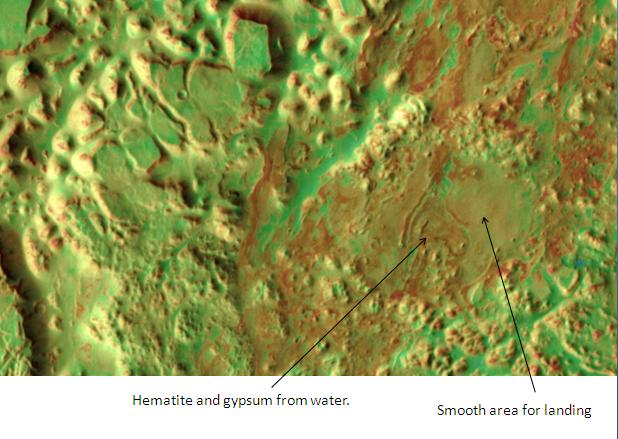 Landing zone in Iani Chaos, as seen by themis. The picture is located at 1.9 degrees south latitude and 17.9 degrees west longitude. Resolution is 330 feet/pixel. Picture taken with Mars Odyssey's THEMIS. Photo credit NASA/JPL/ASU.